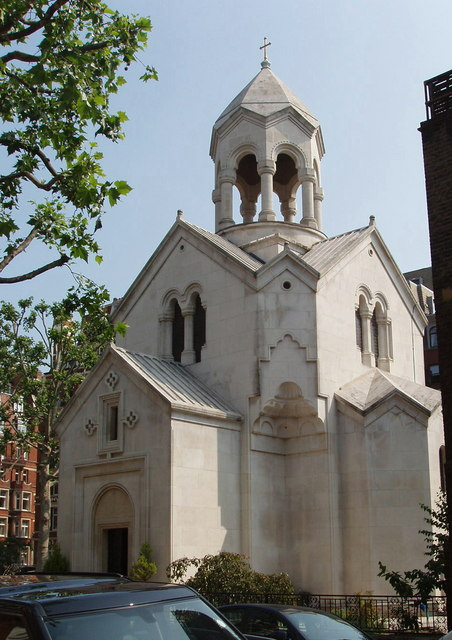 St Sarkis Armenian Church, Iverna Gardens, Kensington, London W8